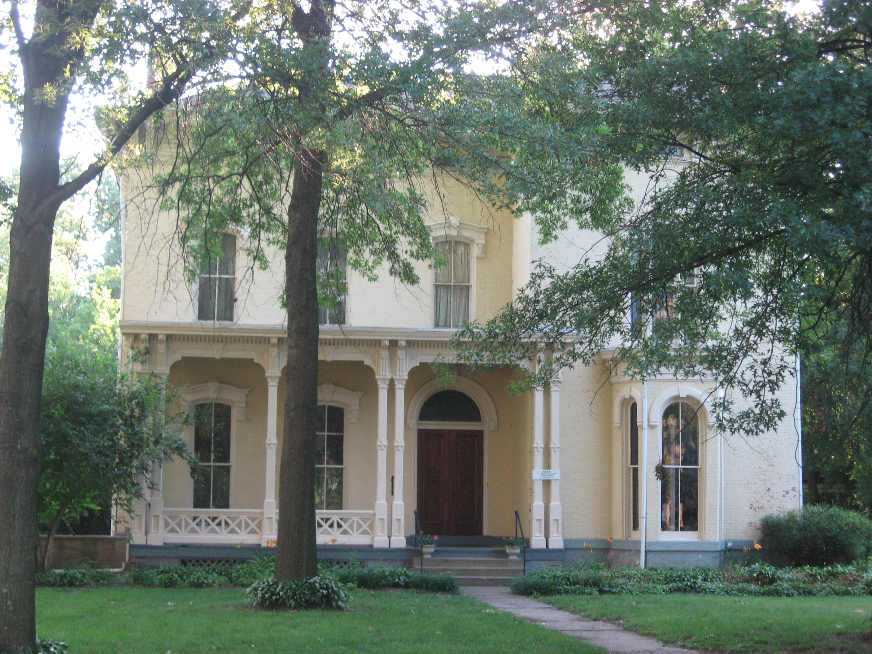 Front of the Sage-Robinson-Nagel House, located at 1411 S. Sixth Street in Terre Haute, Indiana, United States. Built in 1868 and since converted into a museum, it is listed on the National Register of Historic Places, and it is part of a Register-listed historic district, the Farrington's Grove Historic District.